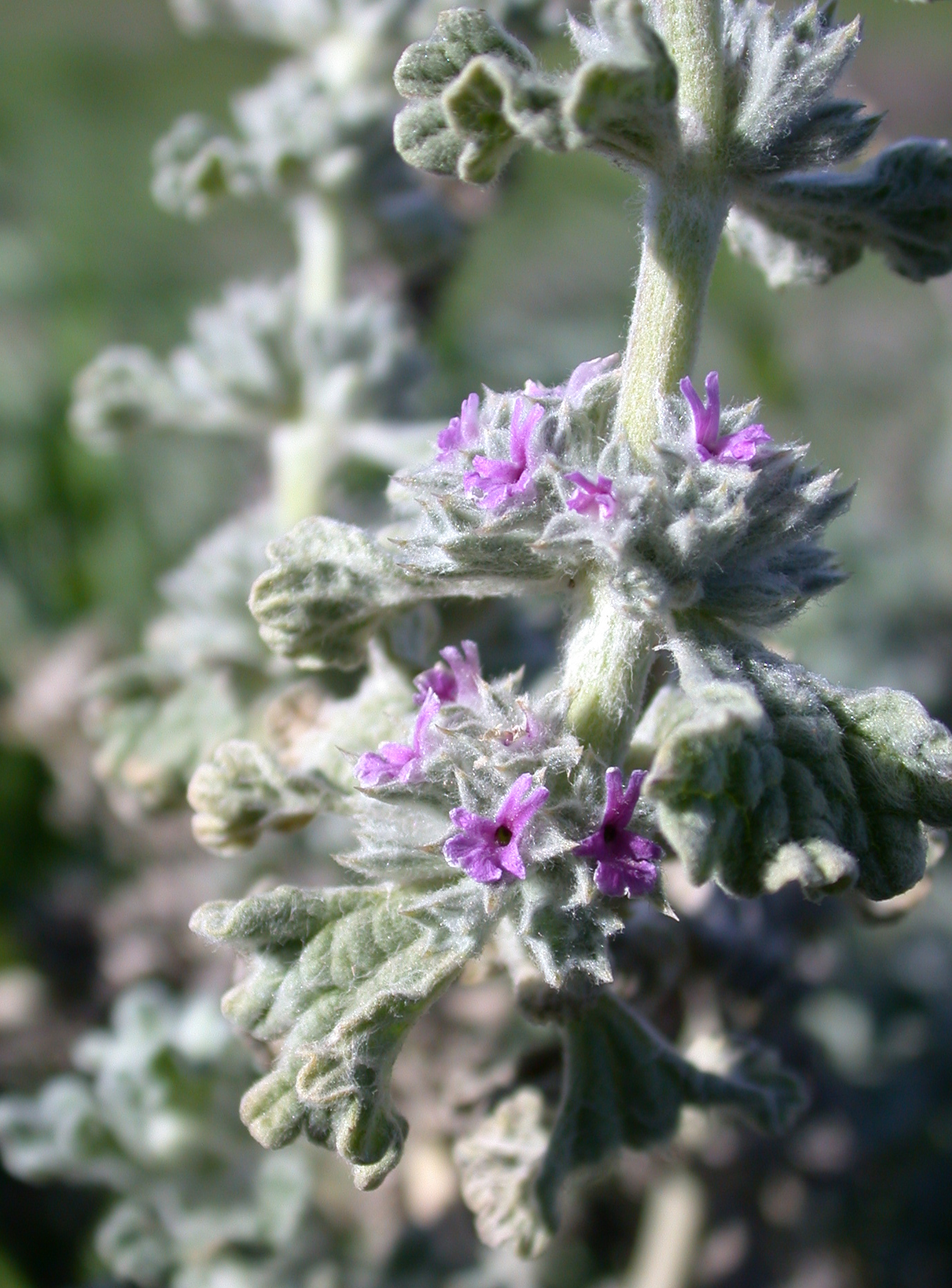 Marrubium alysson L. (מרמר הנגב, מרוביון הנגב), Negev Mountains, Israel, March 2007.